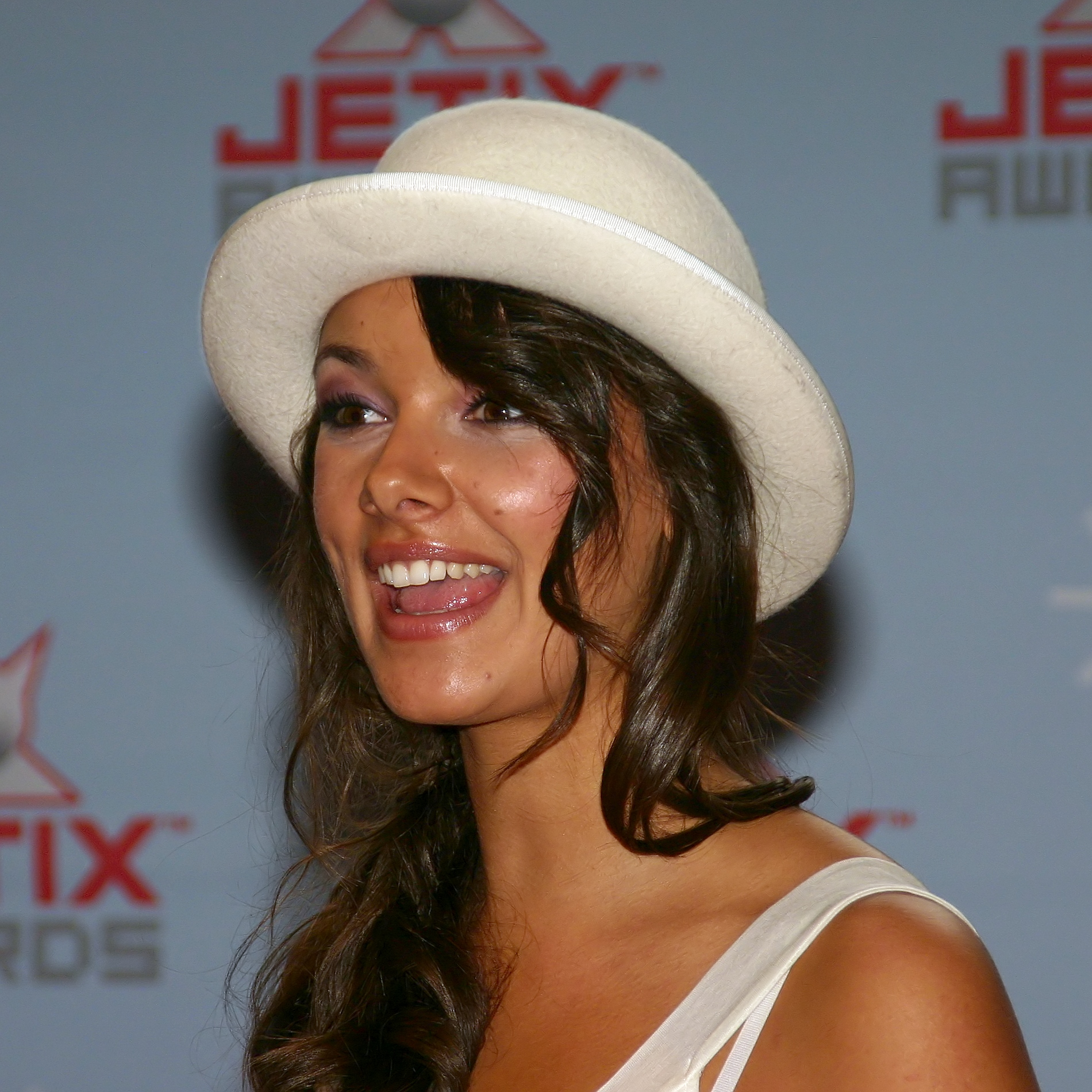 Janina Uhse during the conferment of the JETIX Award at the youth fair "YOU", Berlin